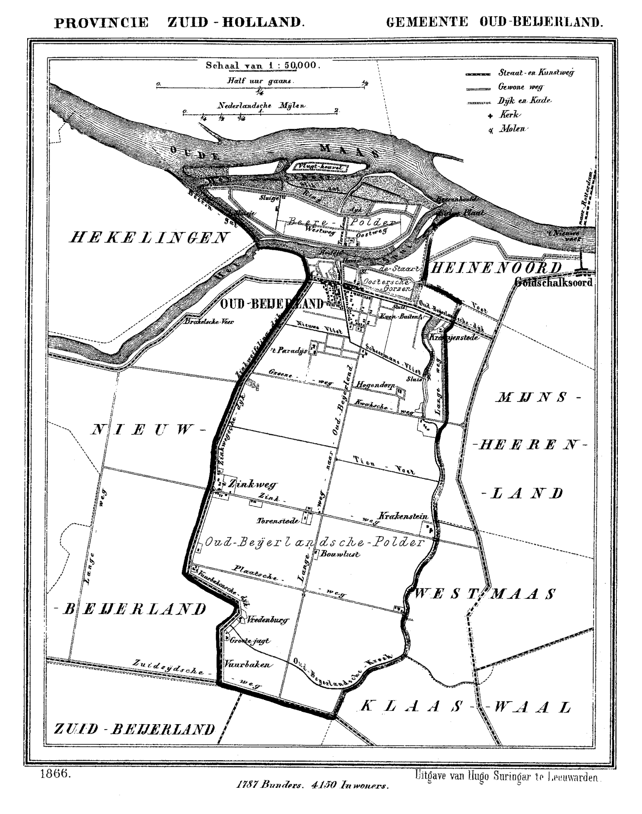 Historic map of Oud-Beijerland, South Holland, the Netherlands